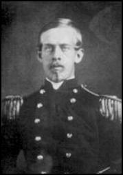 Nicholas Longworth Anderson (1838–1892), a colonel in the Sixth Ohio Volunteer Infantry in the American Civil War; brevetted after the war a brigadier general for meritorious service. Official U.S. Army portrait from 19th century.